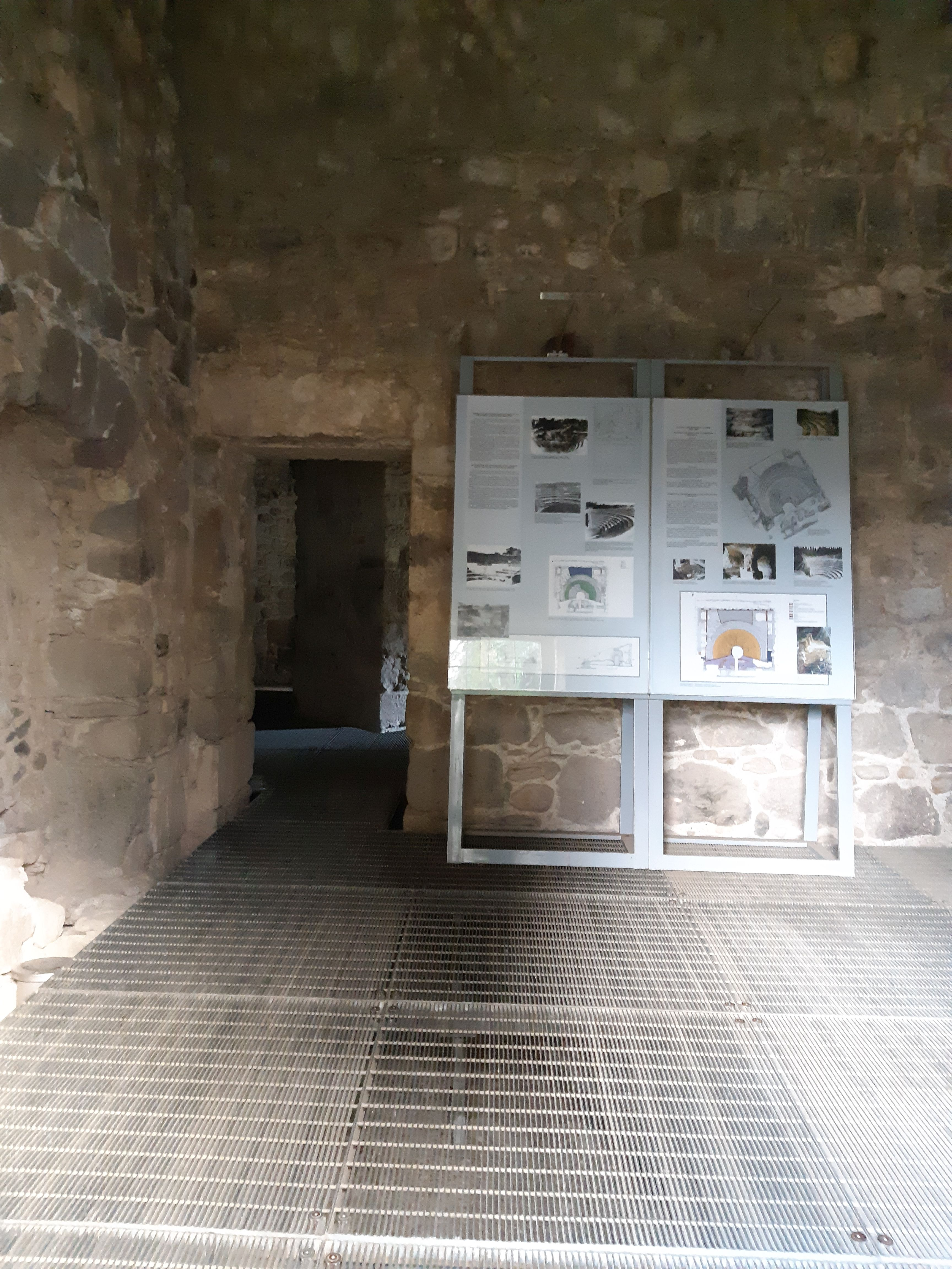 This Roman odeon (odeum, Greek: Ρωμαϊκό ωδείο) is located in the city of Kos (Κως) on the Greek island of Kos (Κω). The Odeon was discovered in 1929 by the Italian archaeologist Luciano Laurenzi during an excavation. The Odeon was built in the 2nd century after Cristus. The building was originally designed for a capacity of approx. 750 people.